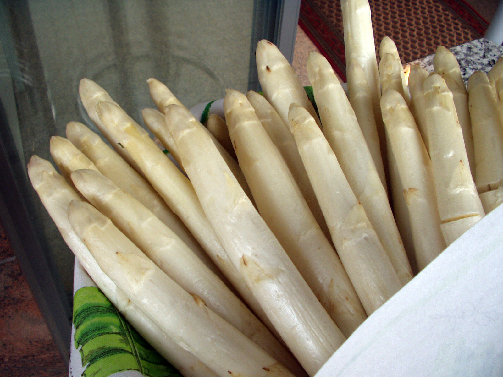 Asparagus